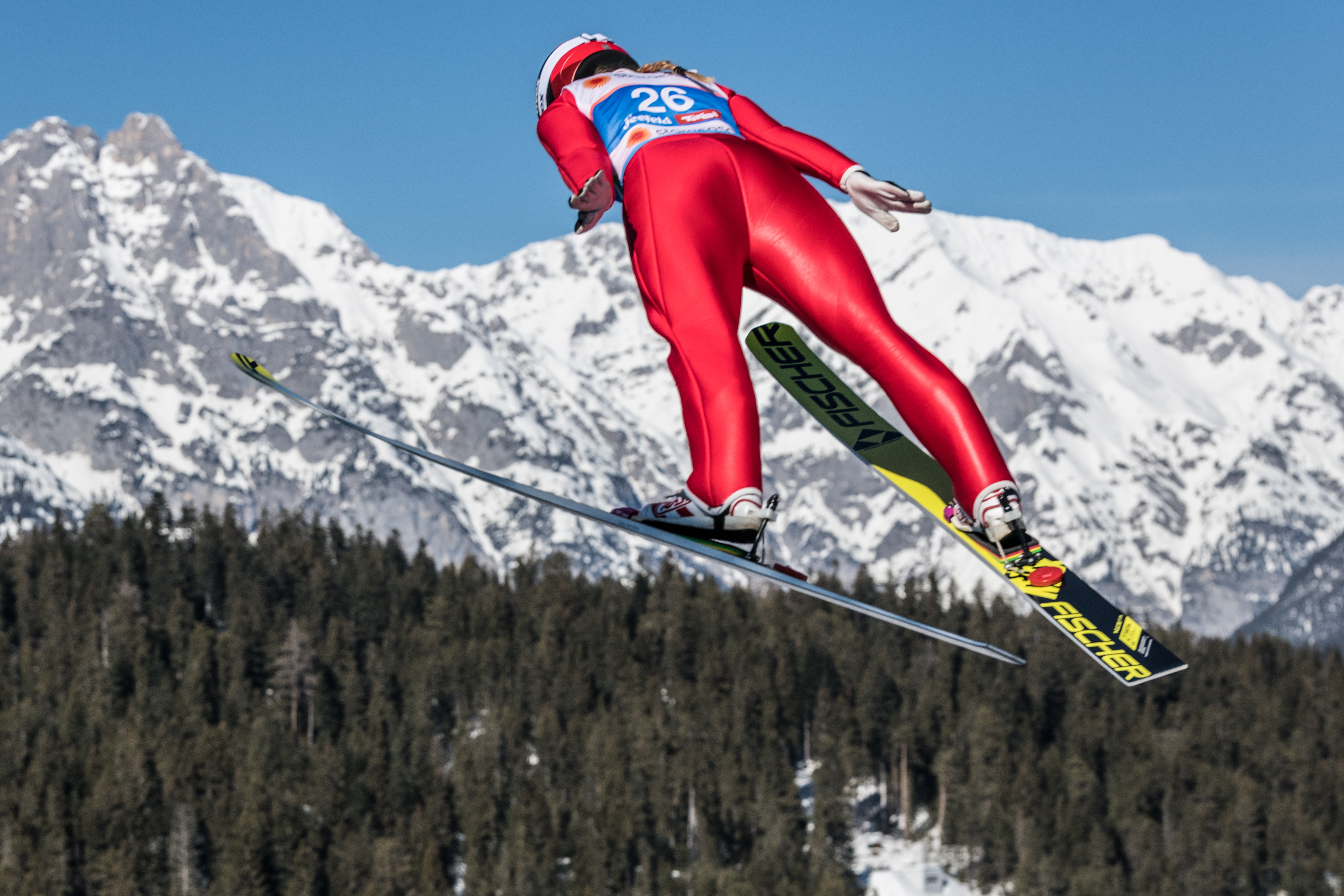 FIS Nordic World Ski Championships Seefeld 2019 - Training ladies ski jump HS109. Picture shows Ingebjoerg Saglien Braaten (NOR)